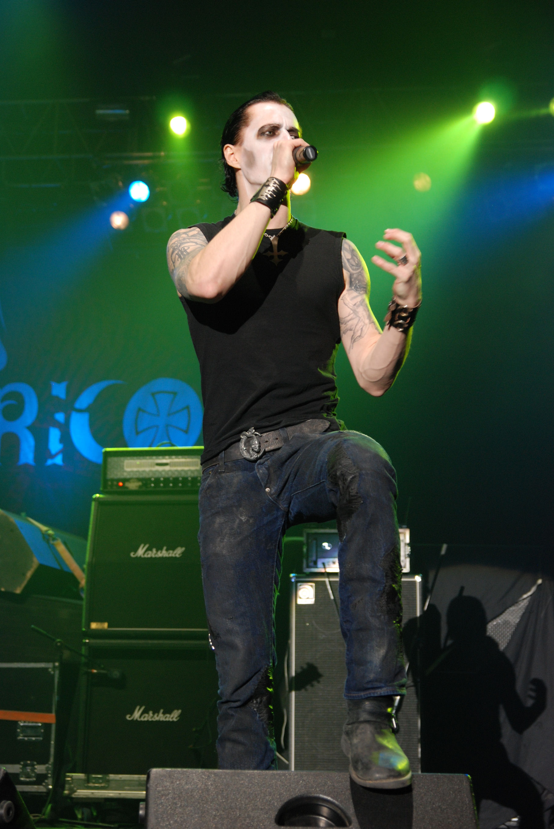 Satyricon during Metalmania 2008 festival